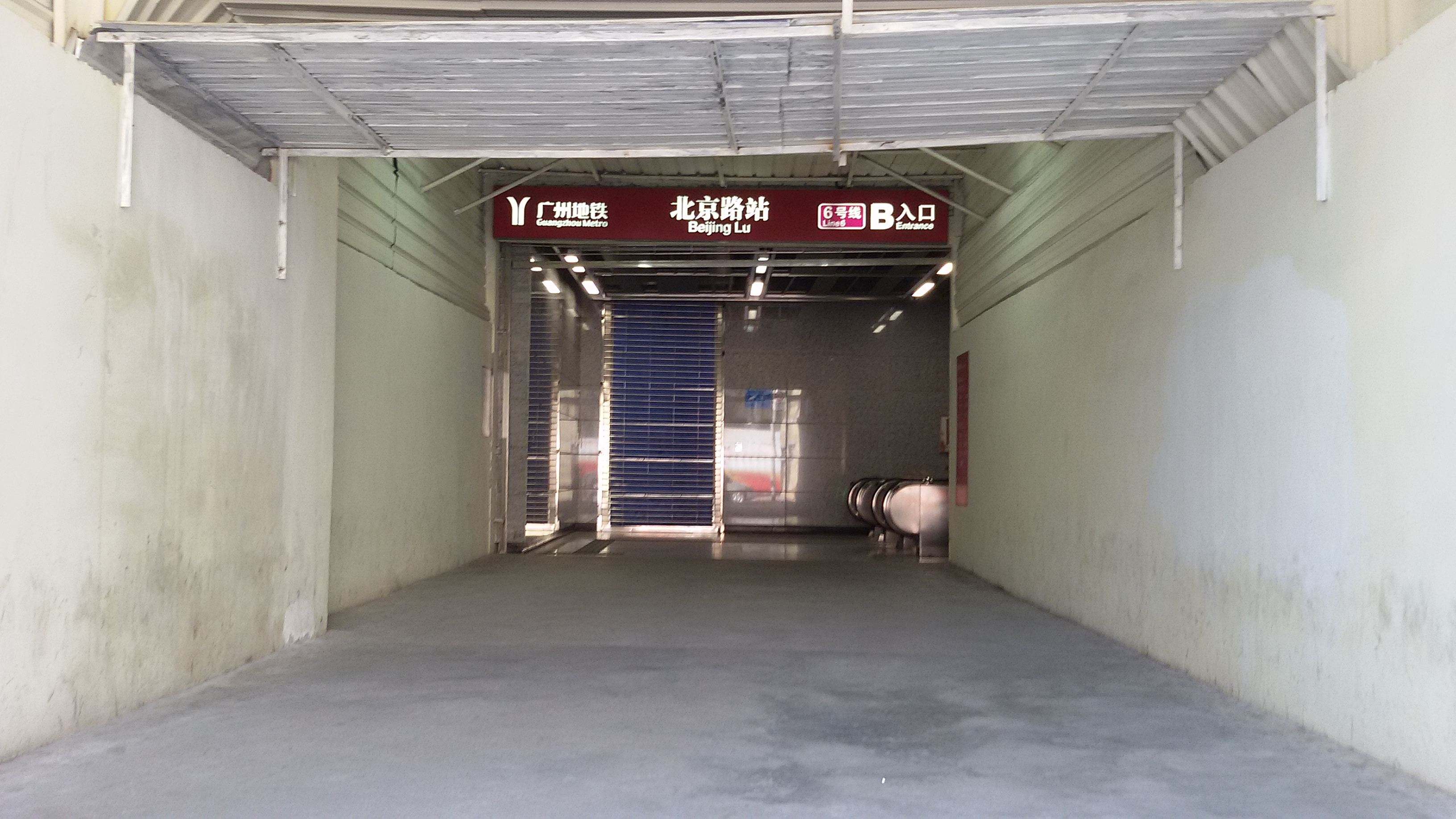 Exit B for Beijing Lu Station, Guangzhou Metro (August 28th., 2014). 粵語: 廣州地鐵，北京路站嘅B出入口（2014年8月28號）。